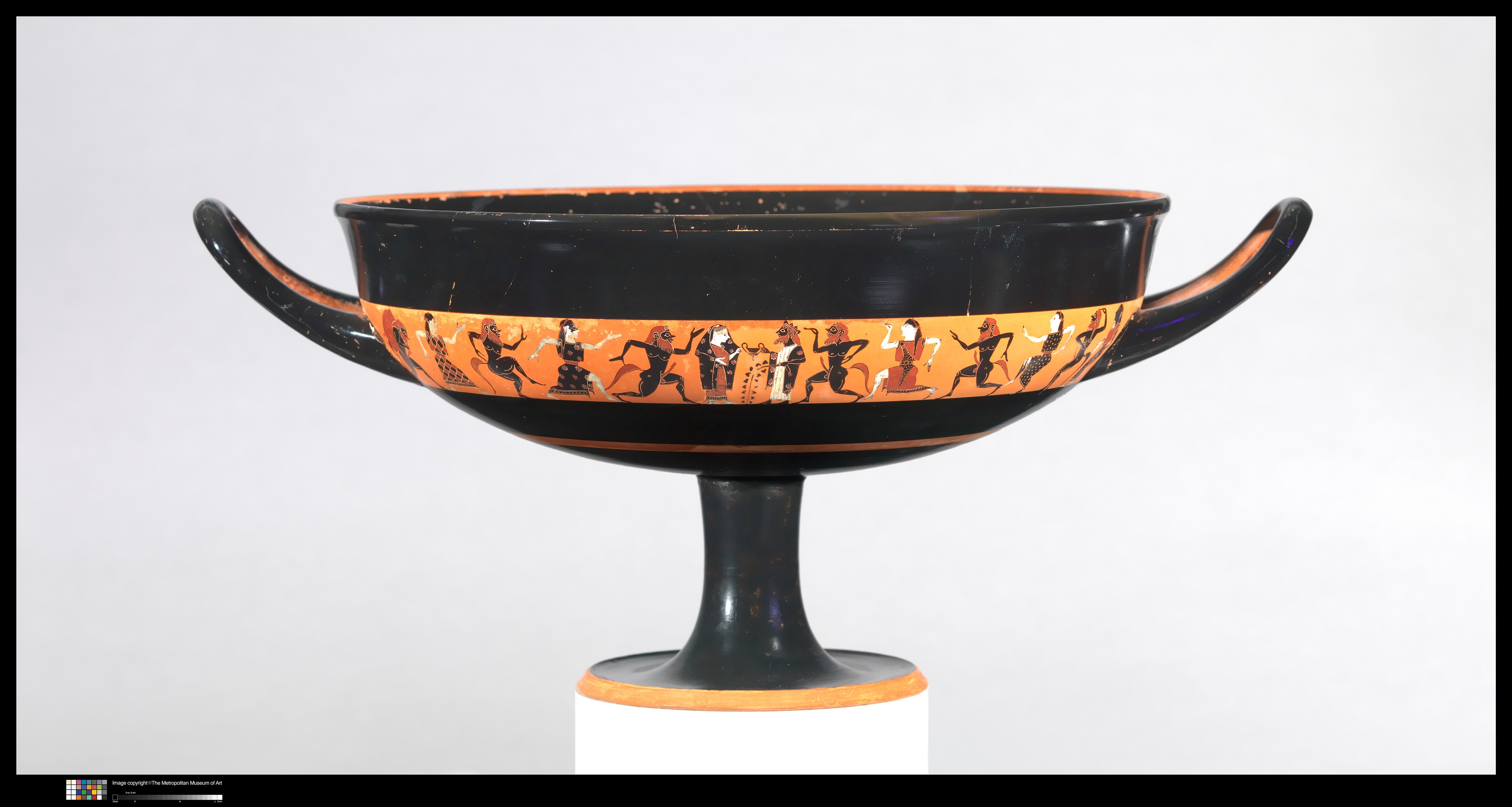 Greek, Attic; Kylix, band-cup; Vases; Obverse, return of Hephaistos; Reverse, Dionysos, the god of wine, and Ariadne among satyrs and maenads The subject here is the same as on the two kraters by Lydos. The band is treated as a frieze with particular emphasis on the central motif. Hephaistos, who rides his mule as though it were a horse, is escorted by Dionysos. The wine god reappears on the reverse with Ariadne, whom he had rescued when she was abandoned on the island of Naxos. The lively figures and considerable added red and white are most appropriate for a drinking cup that could well have been used with kraters (bowls for mixing wine and water) like those by Lydos.